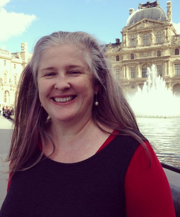 A portrait of Heather Smith, the Australian Author.